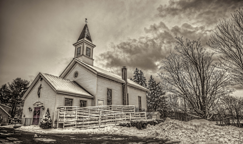 Methodist Church of Rock Hill, NY